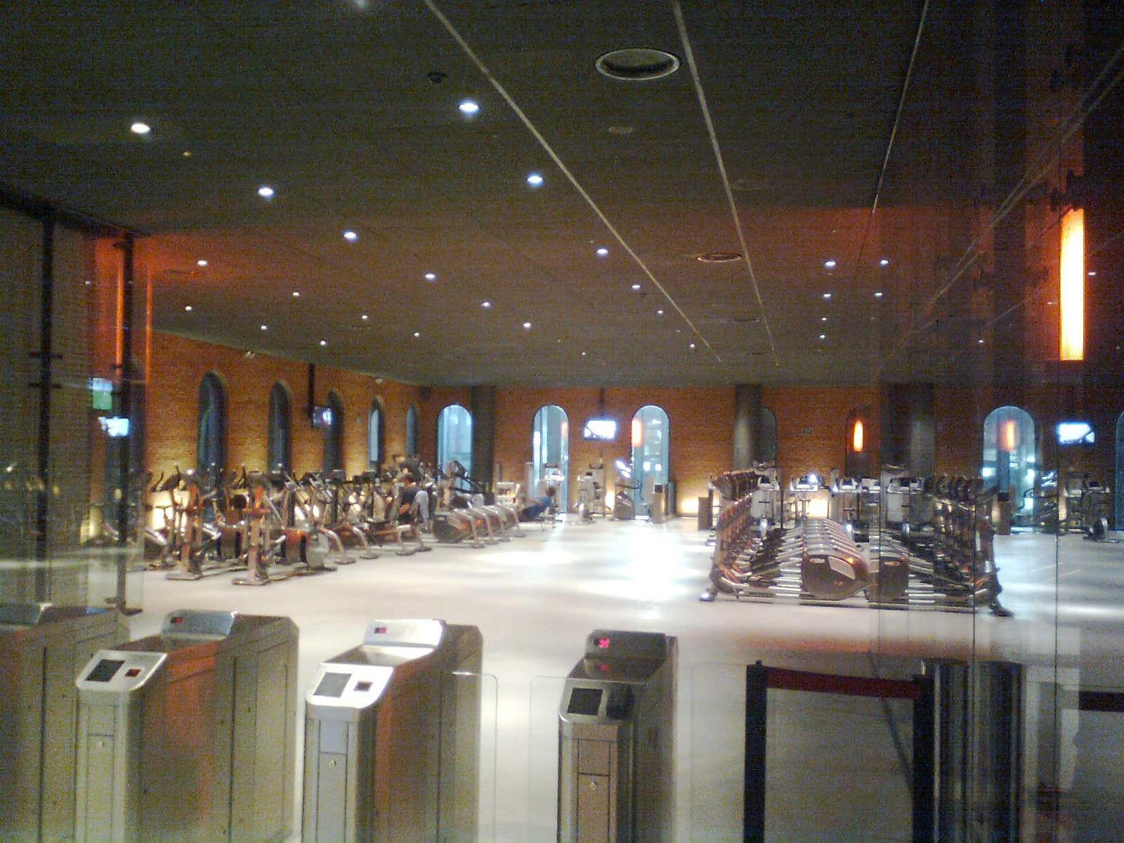 Alhondiga building in Bilbao (Basque Country).